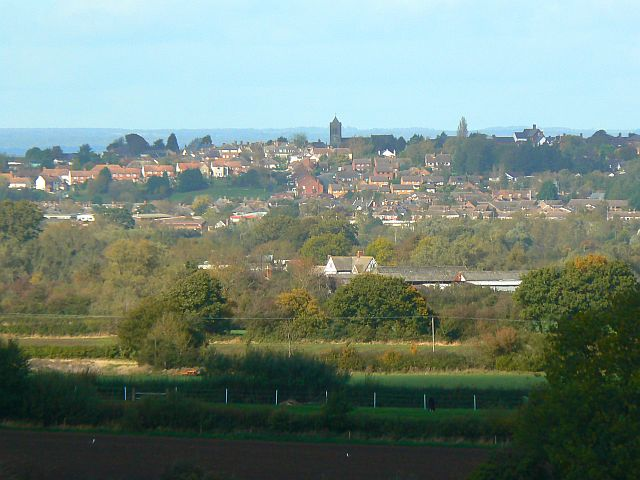 Wootton Bassett from west of Broad Town The church tower on the skyline is at SU06618251. It belongs to St Bartholomew & All Saints Church in the town. There are photographs of the church here and this is the website for the church Thanks to a fellow contributor for providing the name of the church.